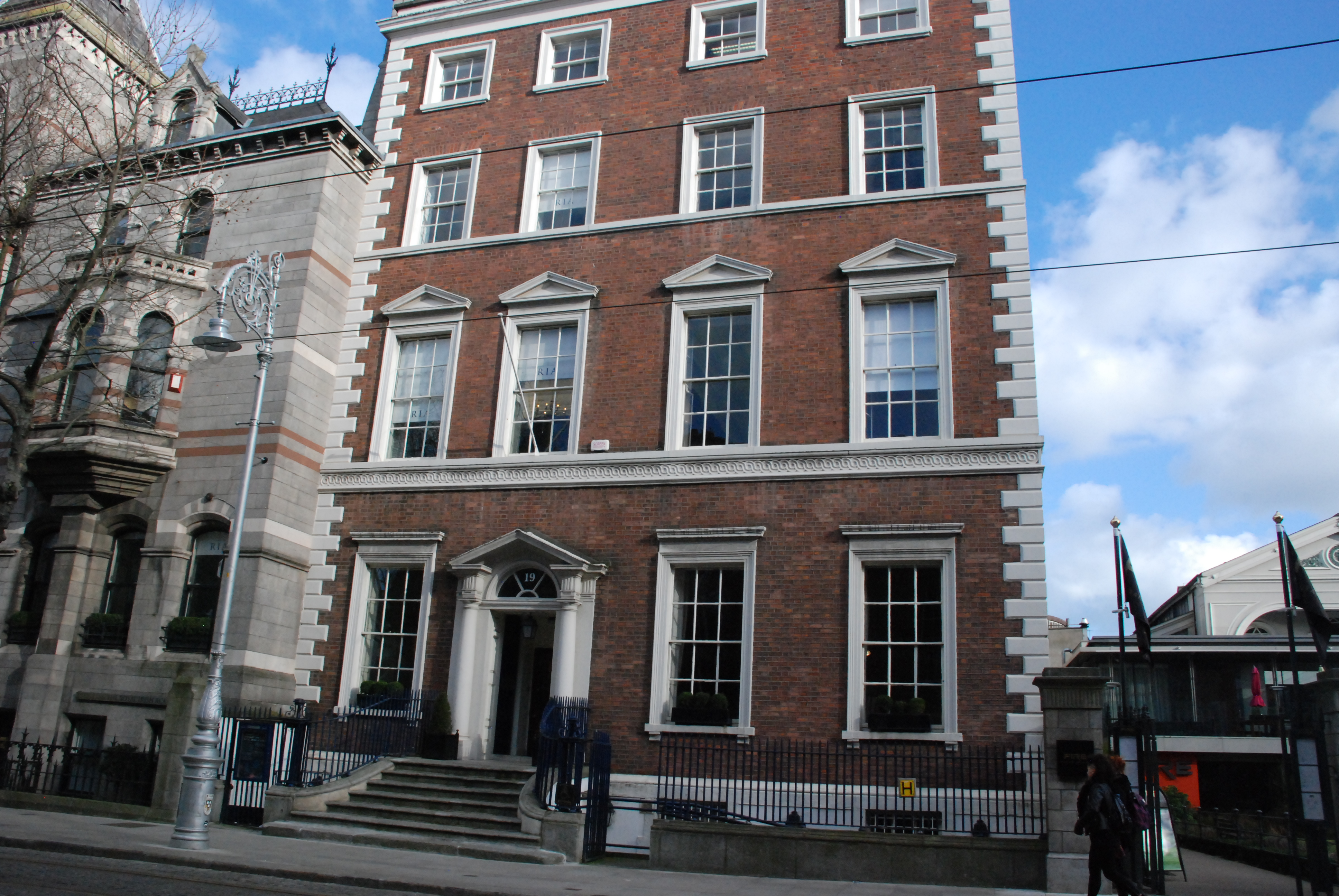 Photo of Academy House